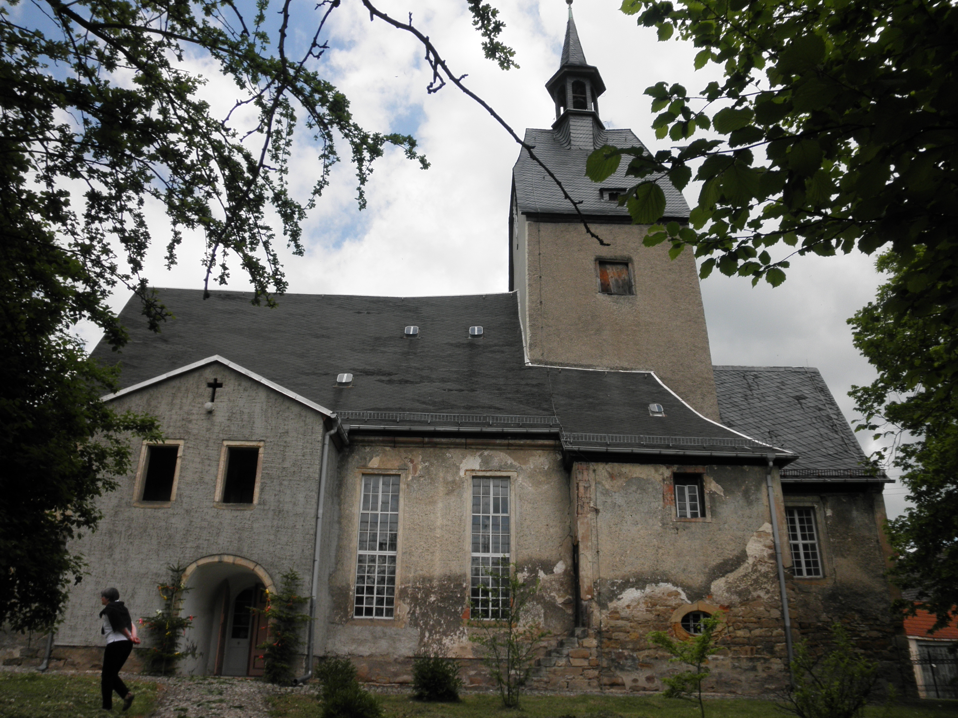 Church in Bachra